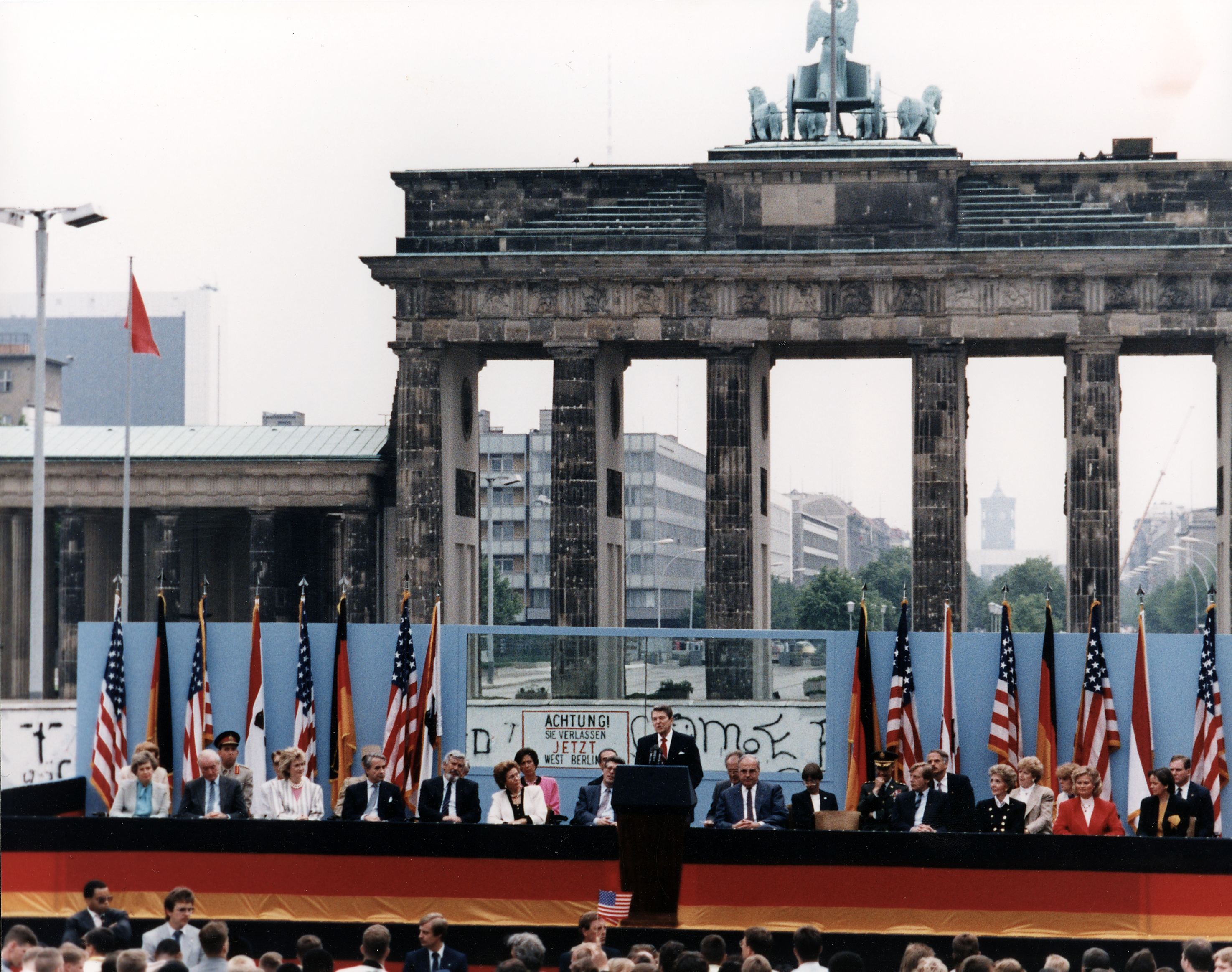 Photograph of the U.S. President Reagan giving a speech at the Berlin Wall, Brandenburg Gate, Federal Republic of Germany.